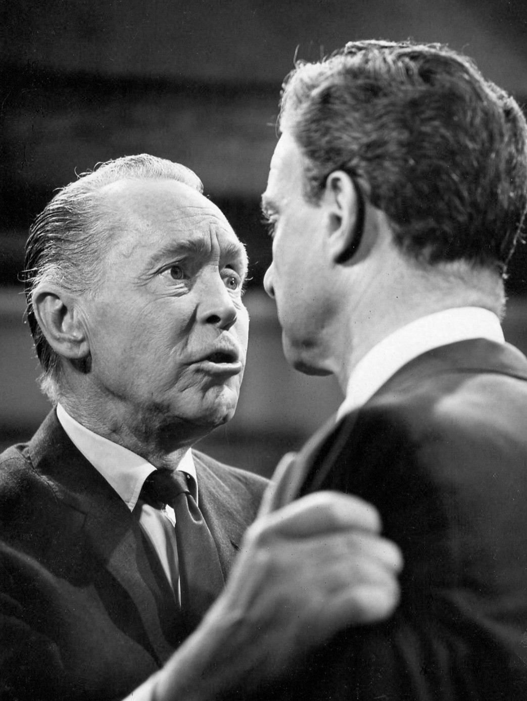 Photo of Franchot Tone and Jonathan Harris from the Twilight Zone episode The Silence.